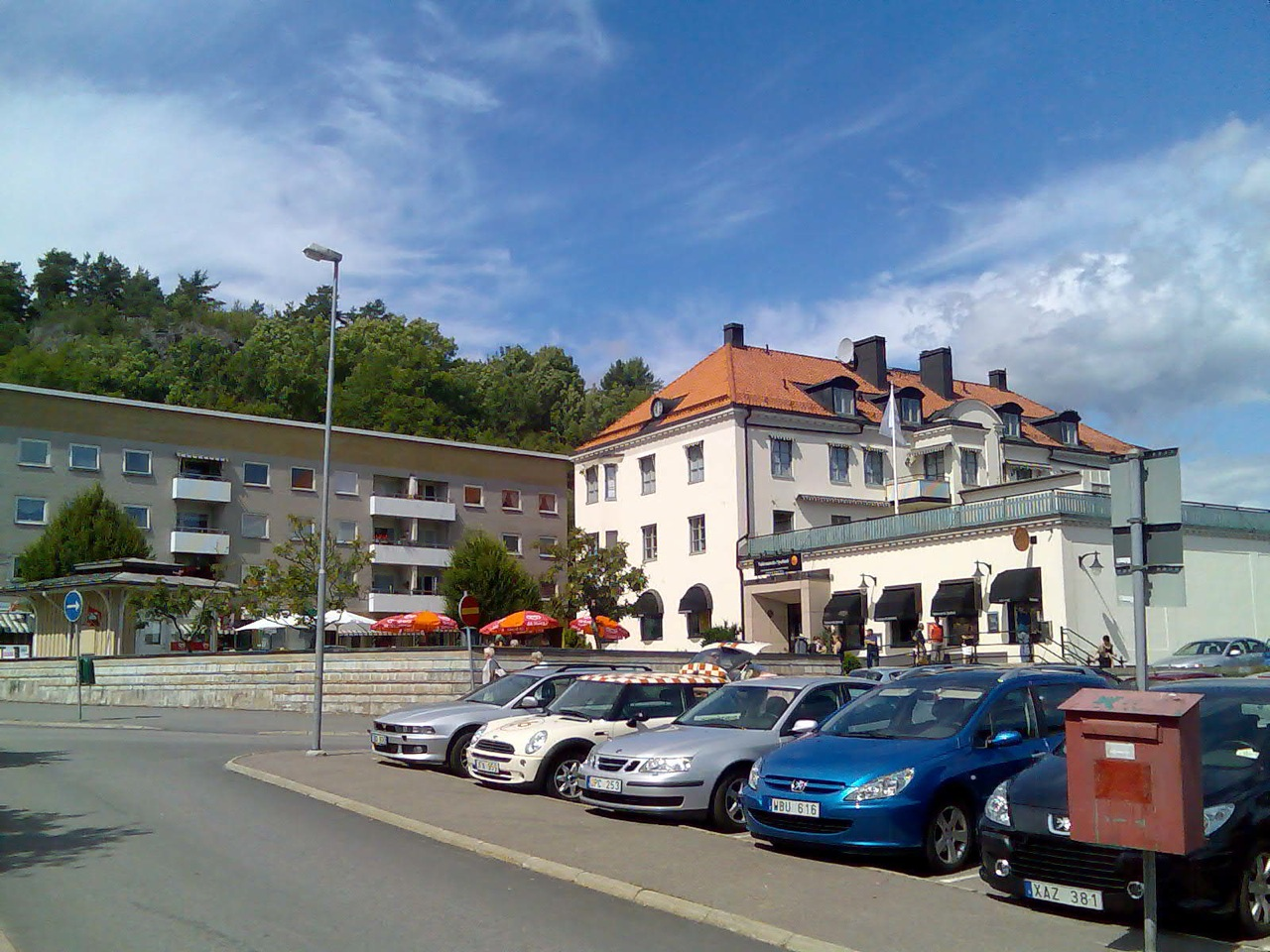 Valdemarsvik, Sparbankstorget